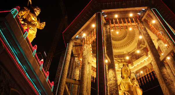 Night Scene of Penang Kek Lok Si Temple's Octagonal Pavilion, taken at year 2010